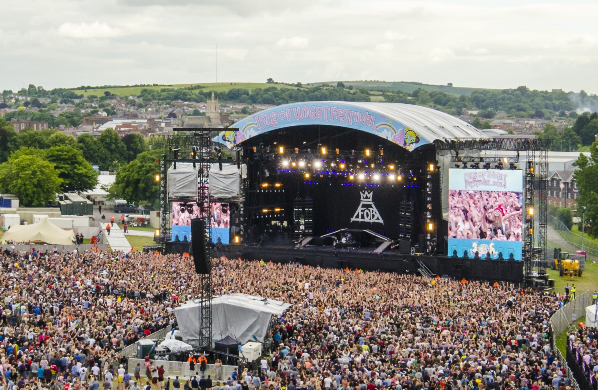 Isle of Wight Festival Main Stage 2014.